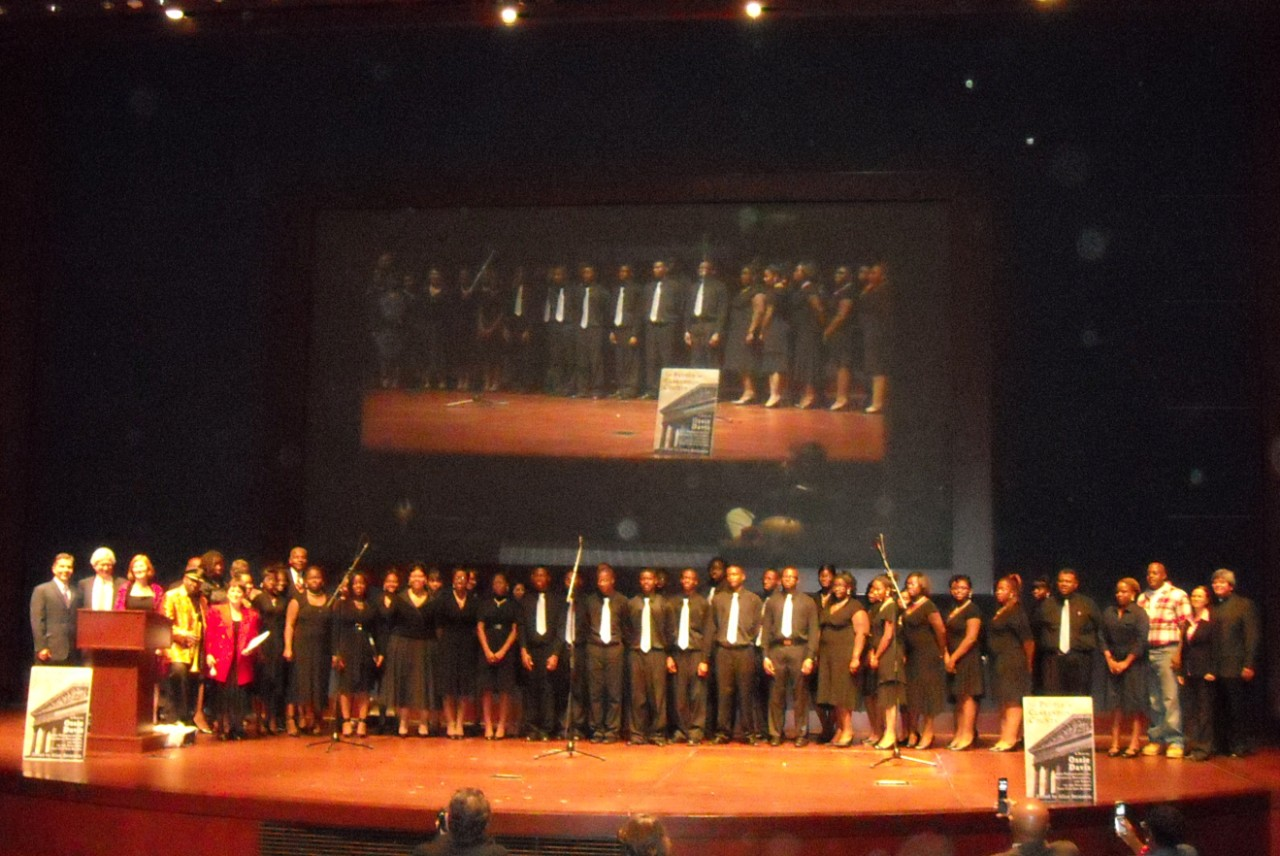 "The People of Clarendon County"—A Play by Ossie Davis, & the Answer to Racism, presented at the Congressional Auditorium, US Capitol Visitor Center on October 21, 2009 with Lee Central HS Chorus and the Thelma Slater Singers of Bishopville, Bishopville, South Carolina.